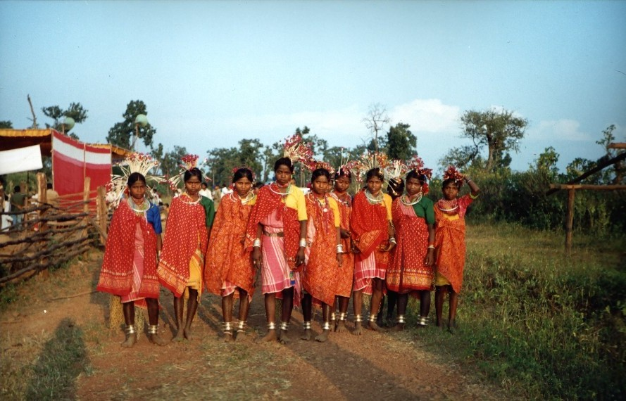 Self created image of Bhil tribe girls in Jhabua district